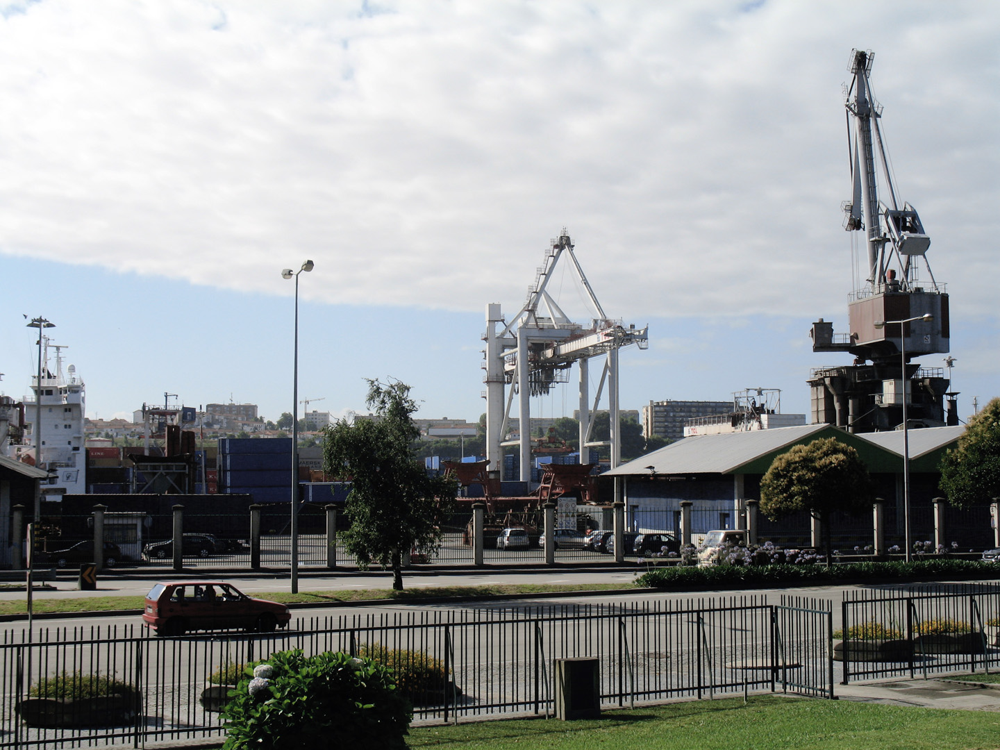 Port of Leixões, Leça da Palmeira, Portugal